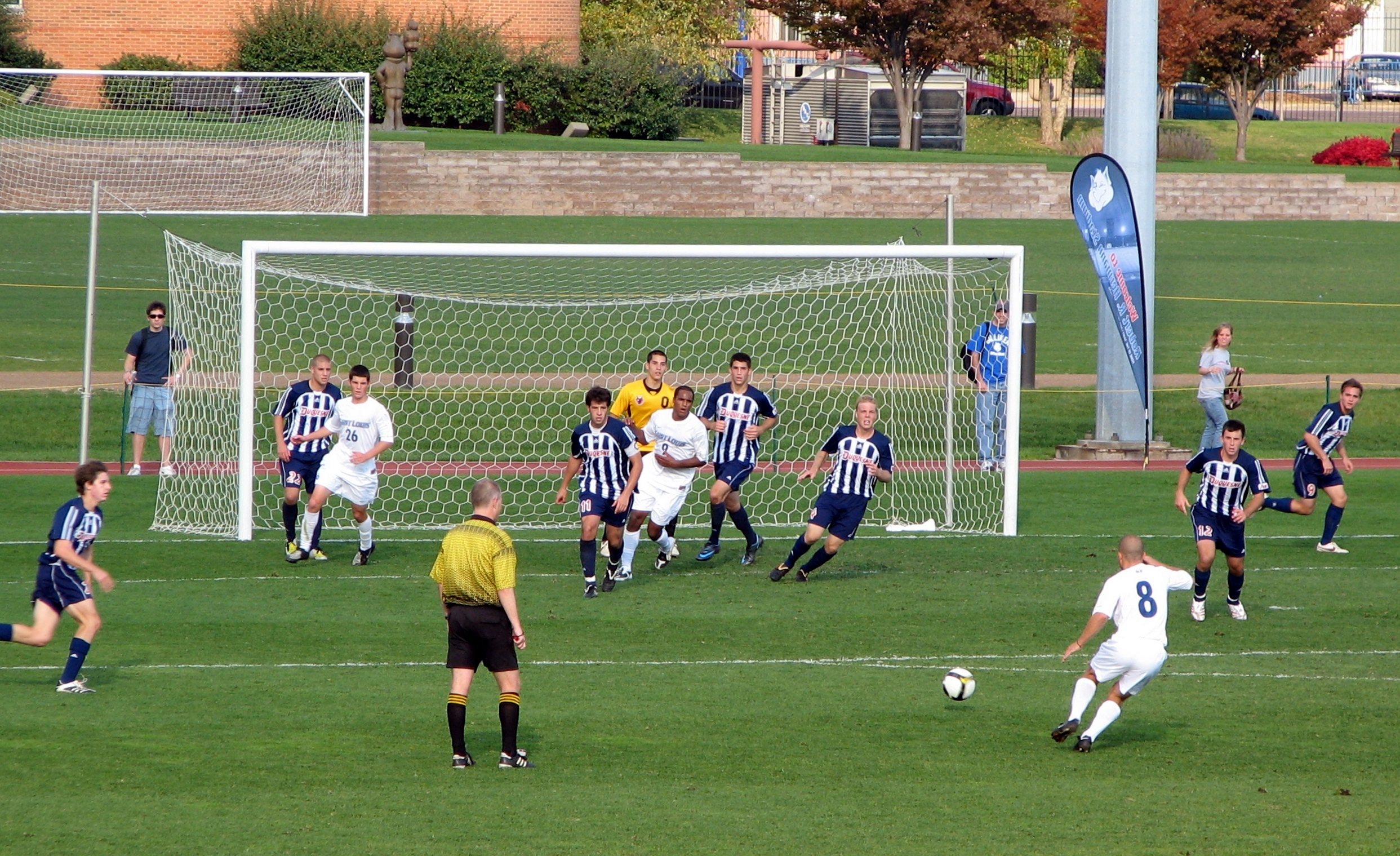 Saint Louis University Men's soccer game against Duquesne, November 2, 2008